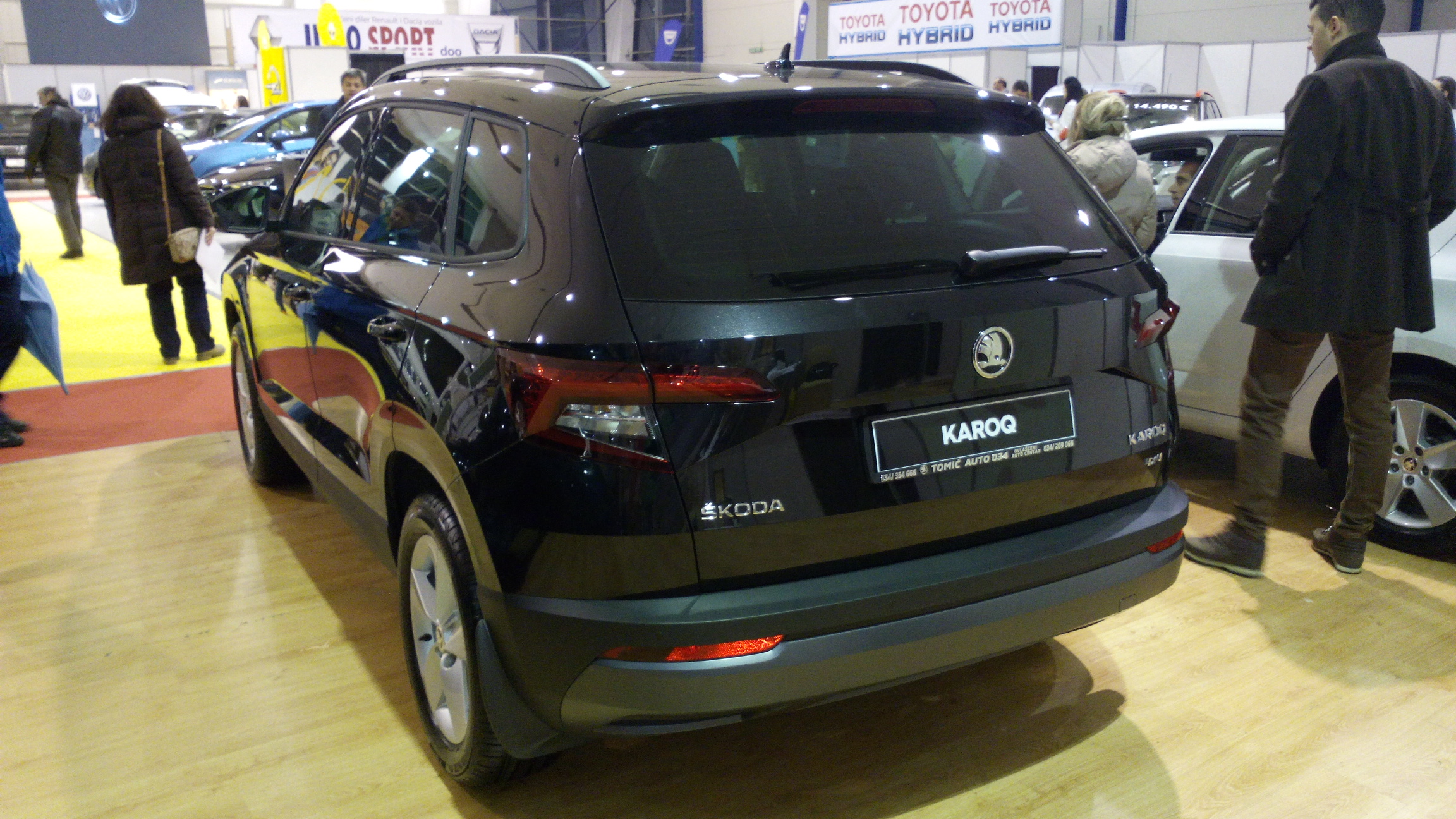 2017 Škoda Karoq 4x4 Style at Auto Expo Kragujevac 2017